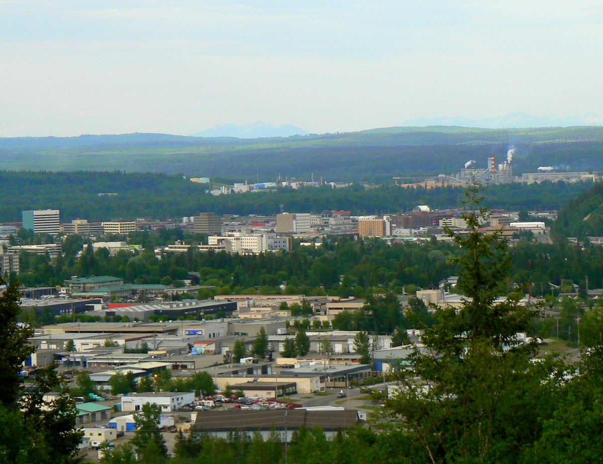 Prince George, British Columbia, 2011. From the University Hill, Looking East